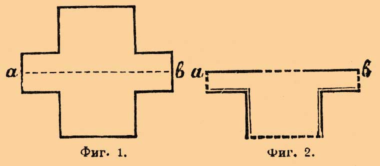 Illustration from Brockhaus and Efron Encyclopedic Dictionary(1890—1907)